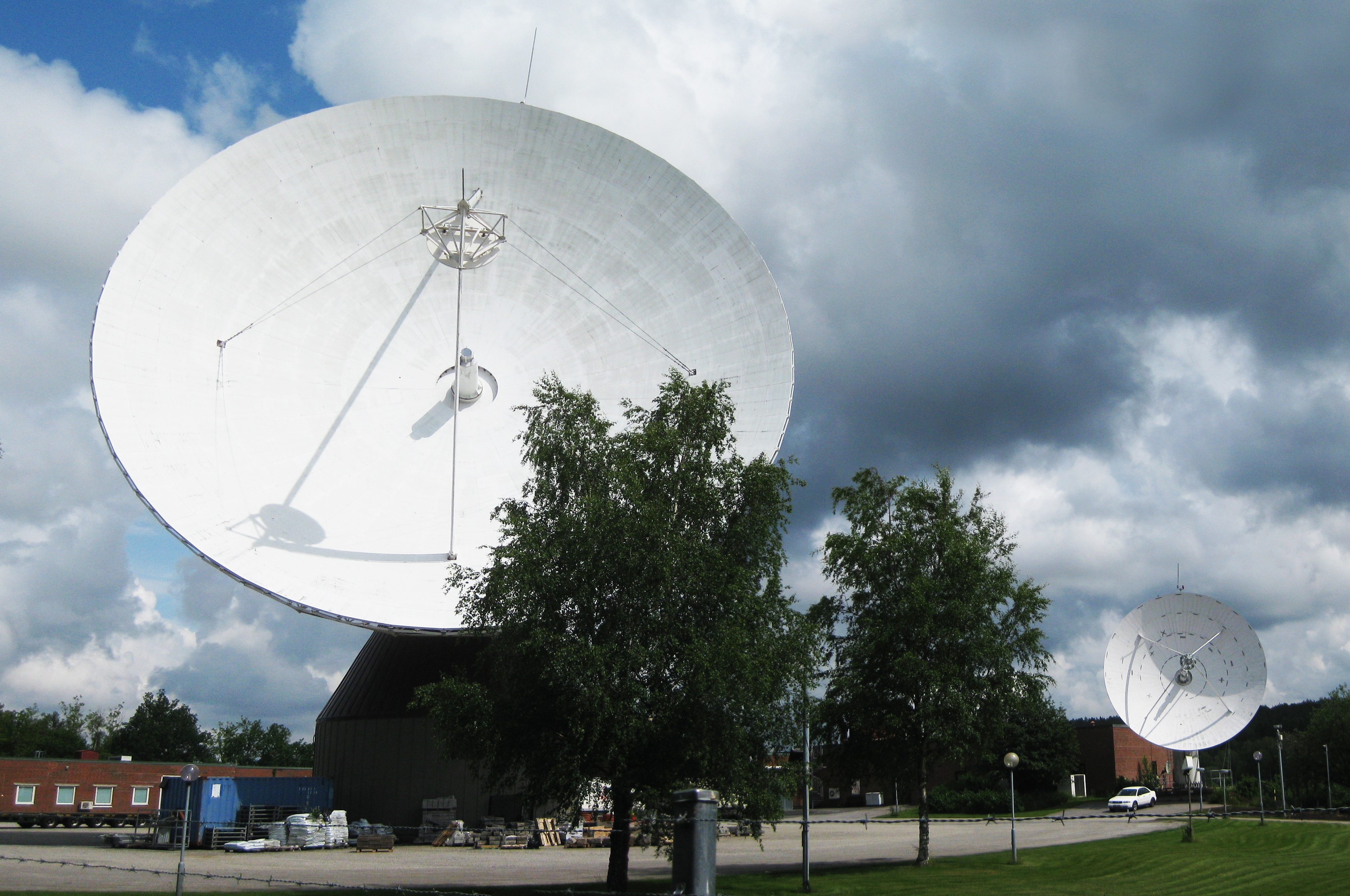 Tanum Teleport, a few kilometers south of Tanumshede. The biggest antennas are 30 and 32 meters in diameter.